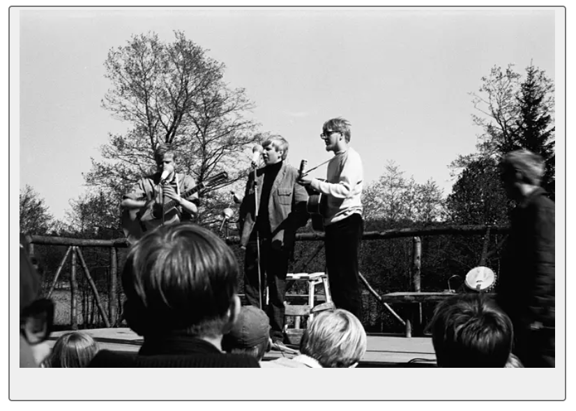 Hootenanny Trio performing in Sandvik Folk Festivat 1966